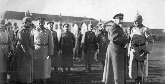 German and Bulgarian leadership meet in Nish on 5 of January 1916. Emperor Wilhelm II and Lieutenant General Petar Markov are on the left while Tsar Ferdinand and Field Marshal Mackensen are on the right.